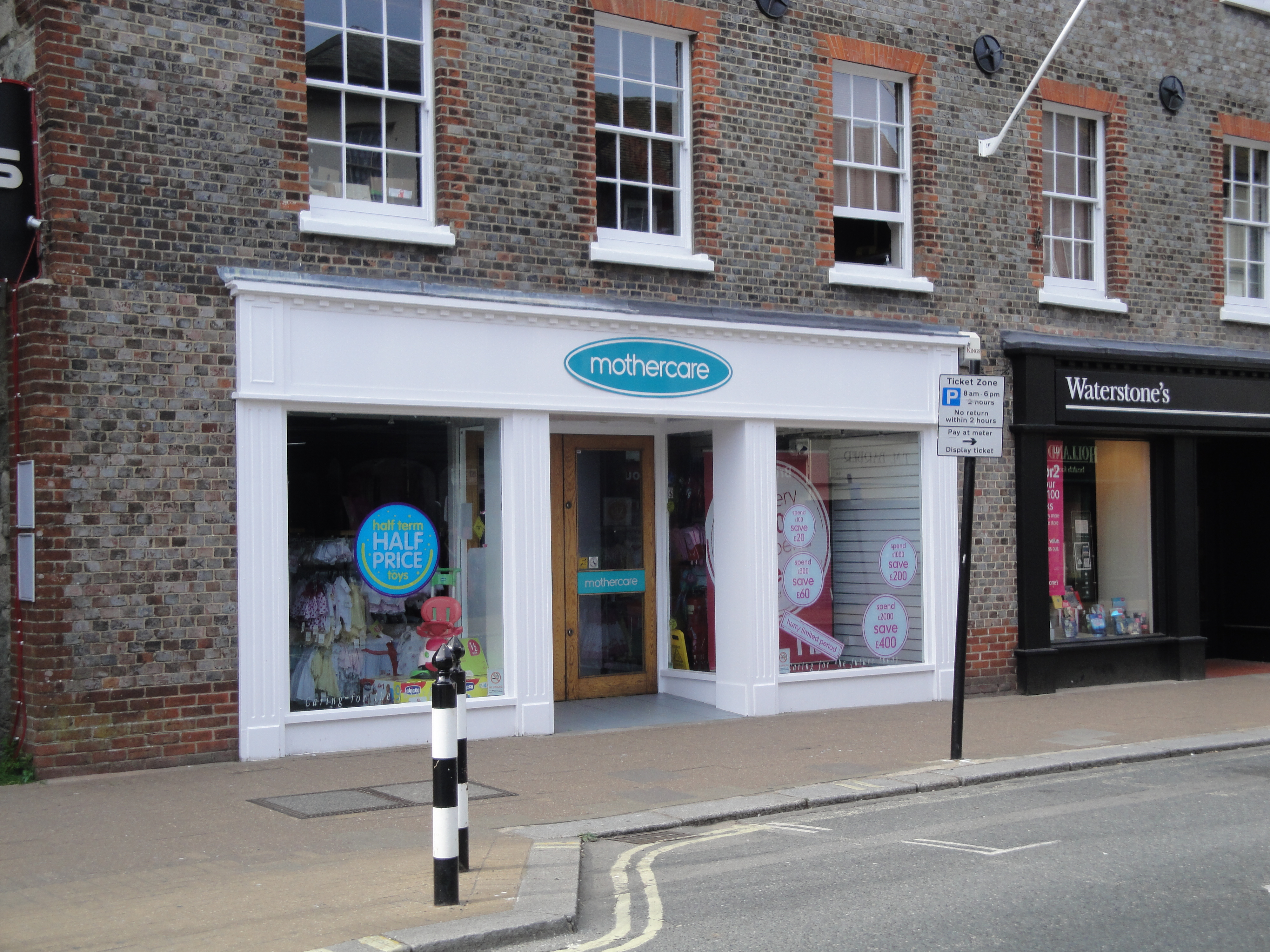 The Mothercare branch in the High Street, Newport, Isle of Wight. As part of a company portfolio restructuring, this branch closed in July 2011 and moved to a larger site on the Carisbrooke Trading Estate, along with the Early Learning Centre, which was located in St James Square. The site has now become a branch of Mountain Warehouse.